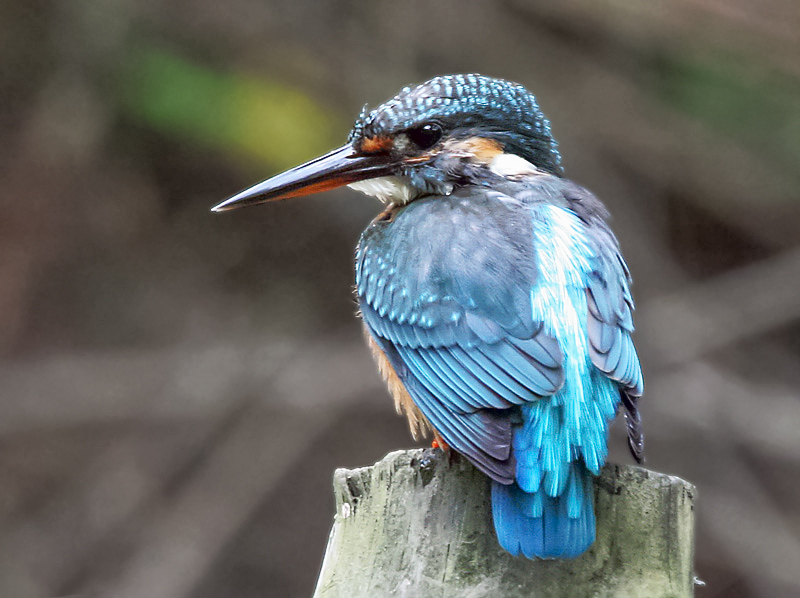 Common Kingfisher Alcedo atthis in Kolkata, West Bengal, India.